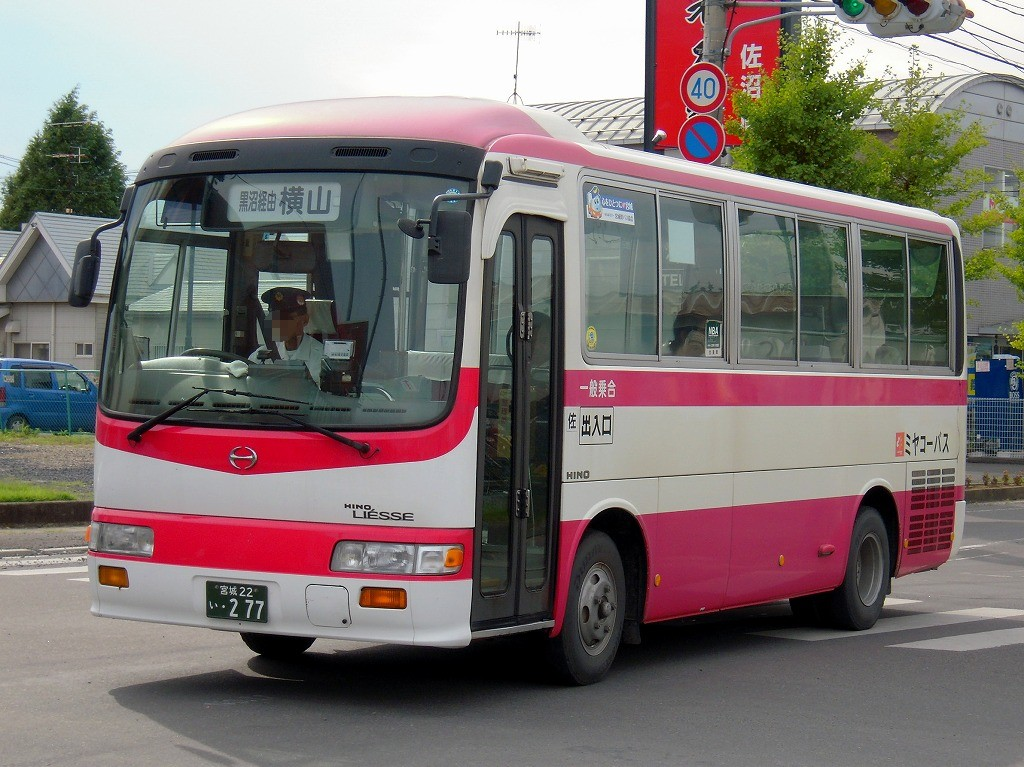 Miyako bus(Sanuma office) Hino Liesse(KC-RX4JFAA),Tome city bus